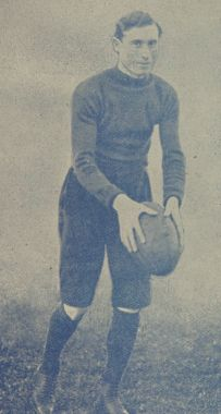 Photo of Hugh Purse taken before 1915